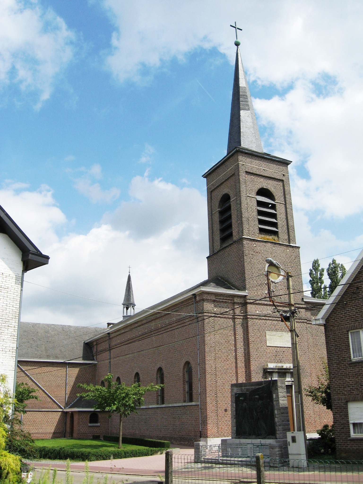 Church of Saint Peter in Chains in Wijer, Nieuwerkerken, Limburg, Belgium